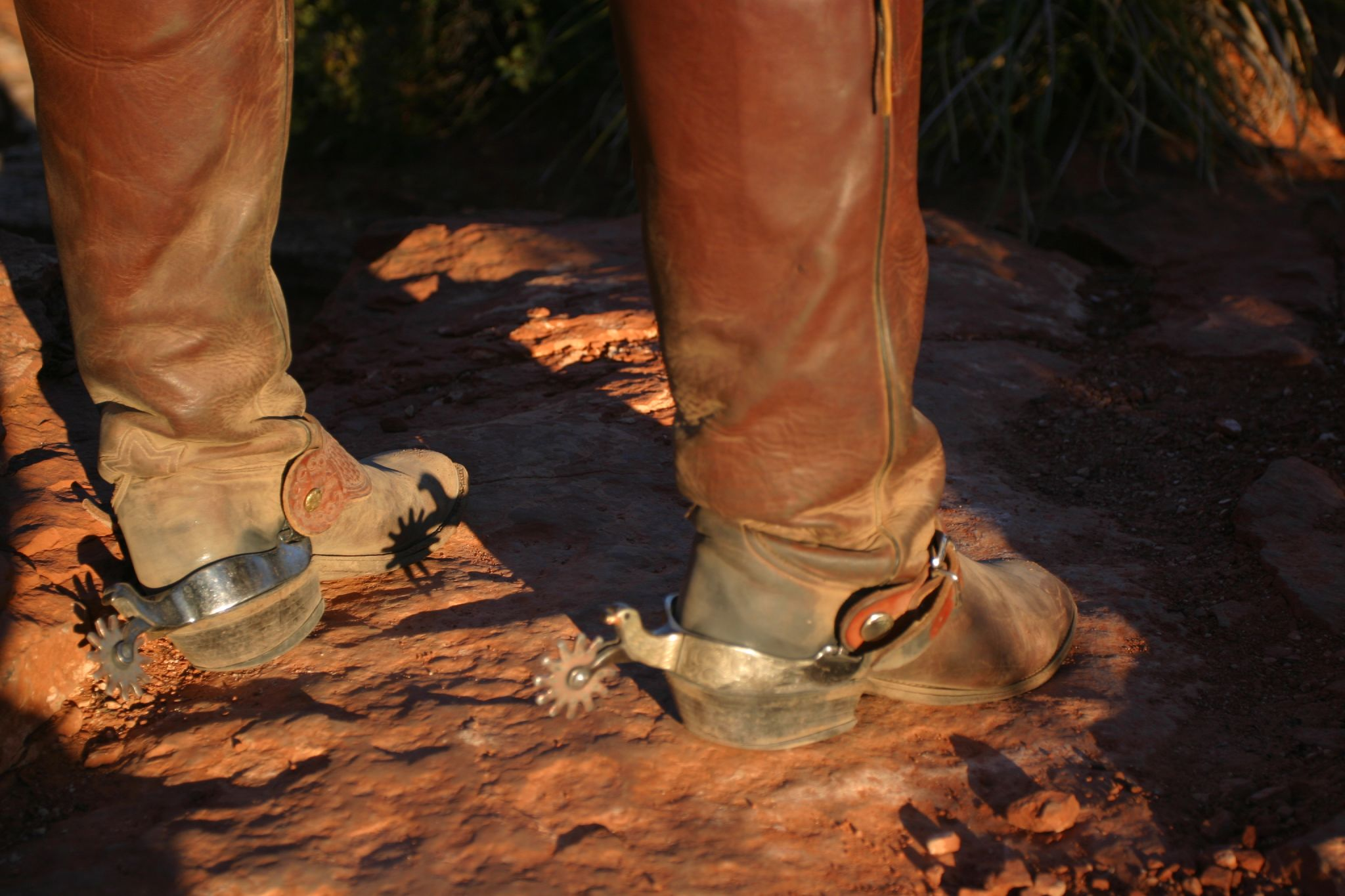 Spurs in western style